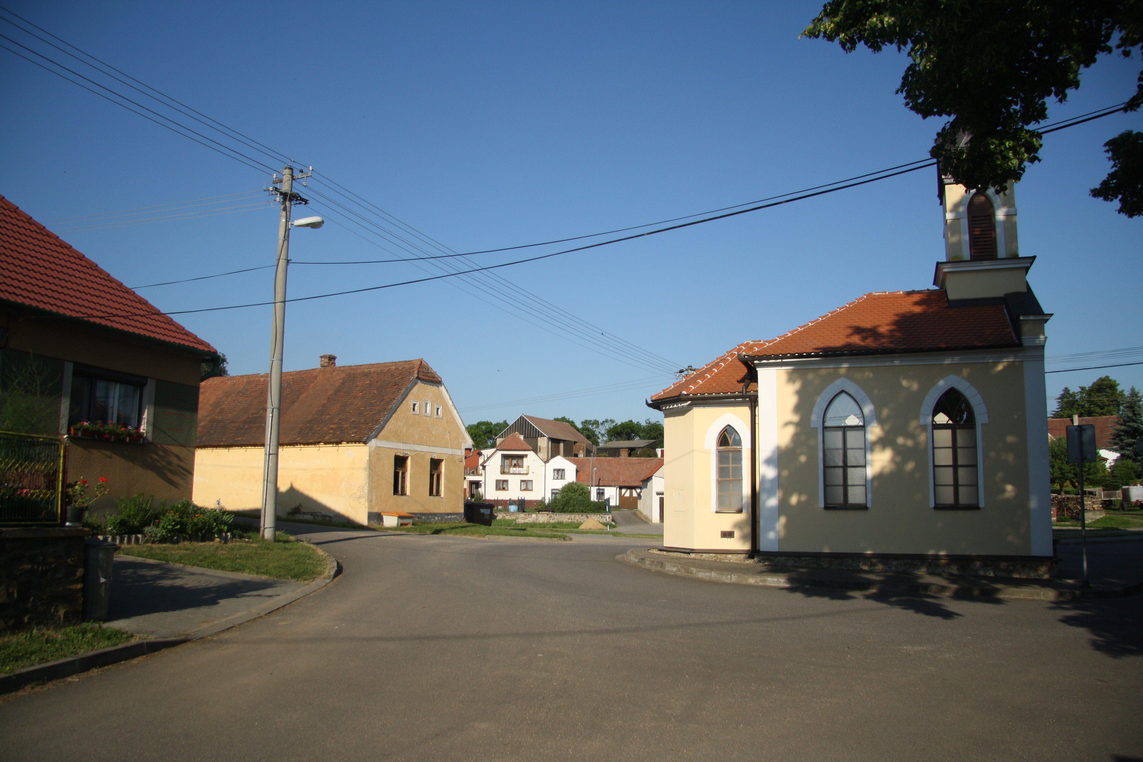 Center of Rácovice with chapel in Rácovice, Třebíč District.